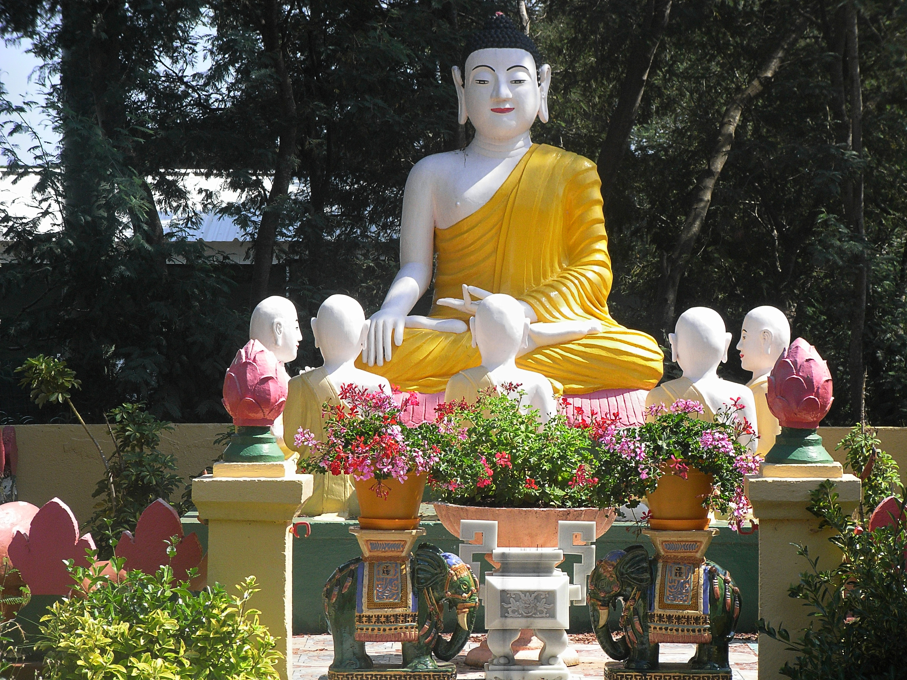 Meditation moment reproduced thanks to these statues!